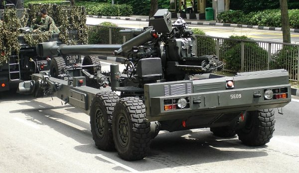 The FH-2000 howitzer in towing configuration, photographed during the National Day Parade 2005 while in mobile column.